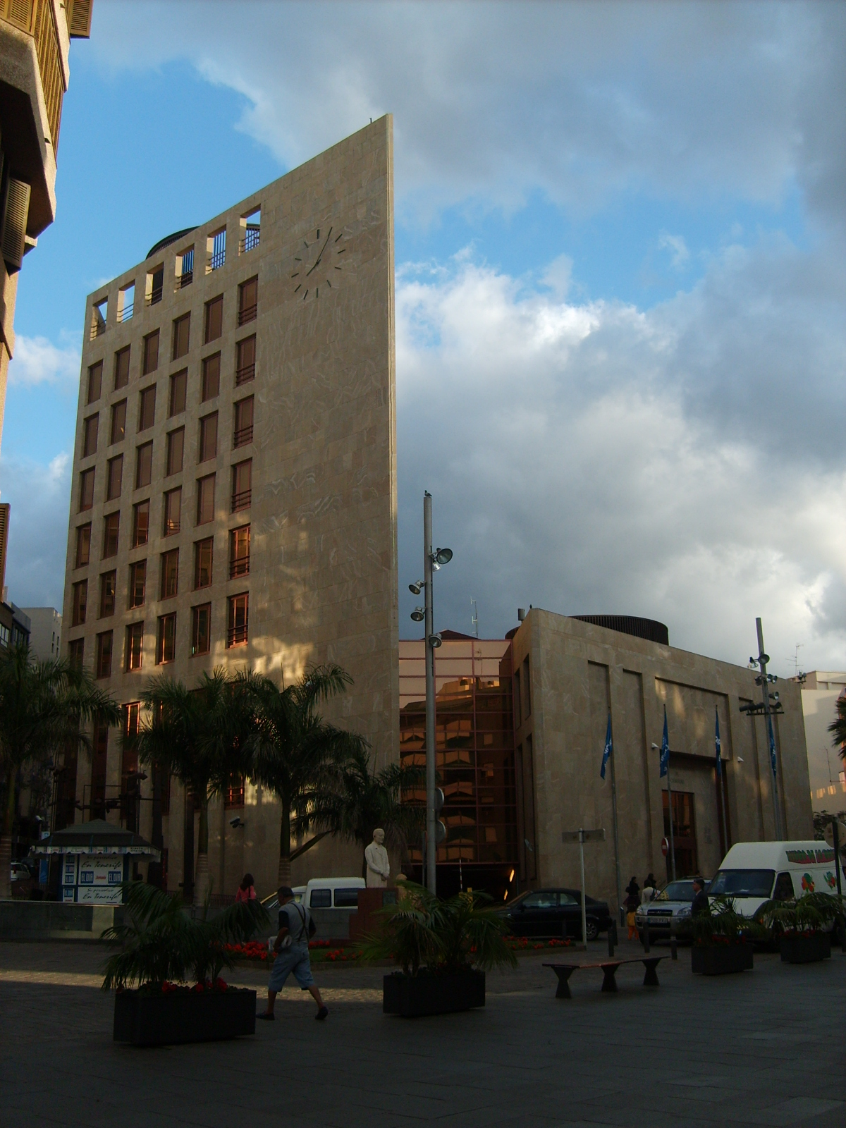 CajaCanarias central office, in Santa Cruz de Tenerife (Canary Islands, Spain).